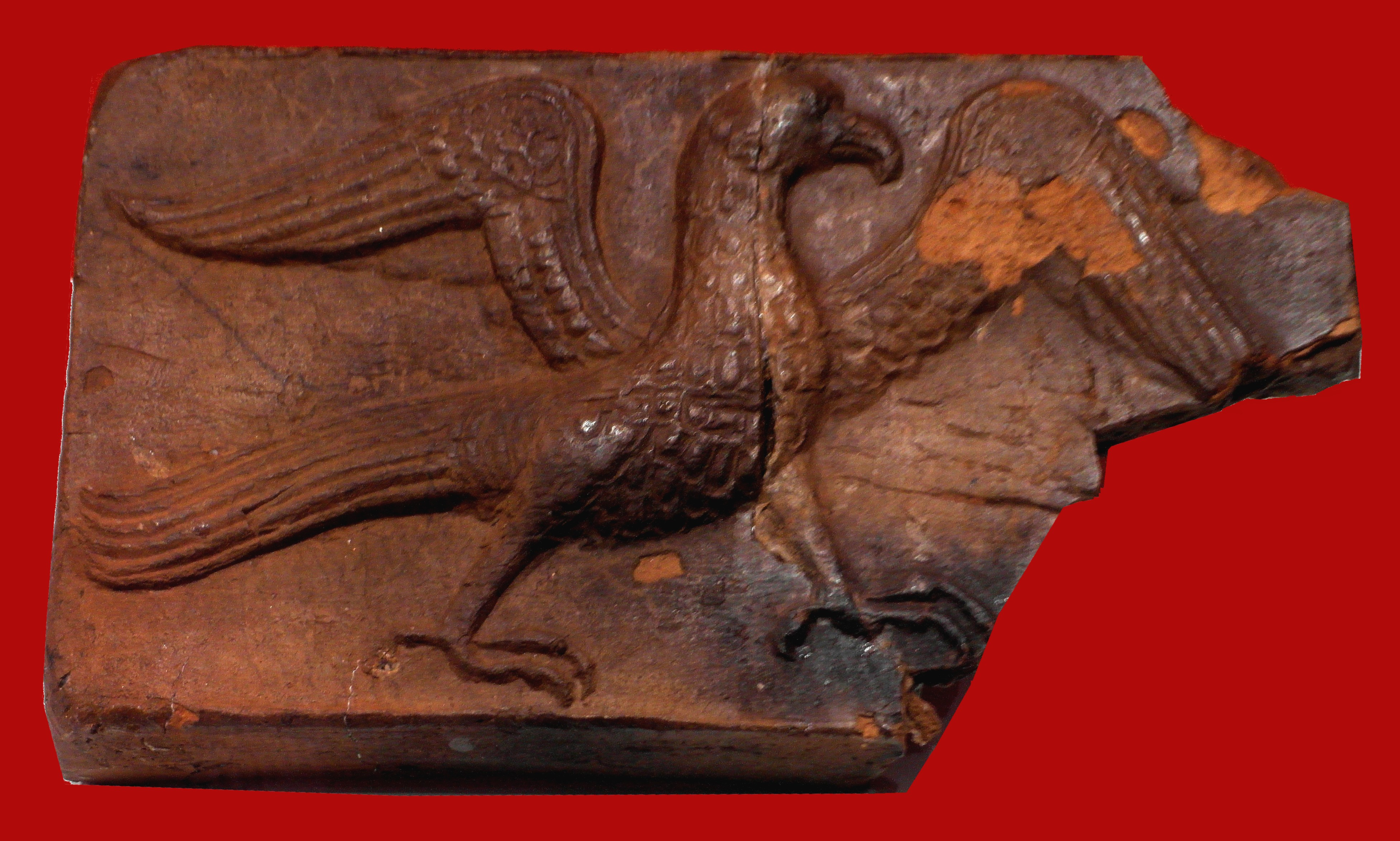 Ceramic tiel featuring an eagle, Gniezno XII Century, clay